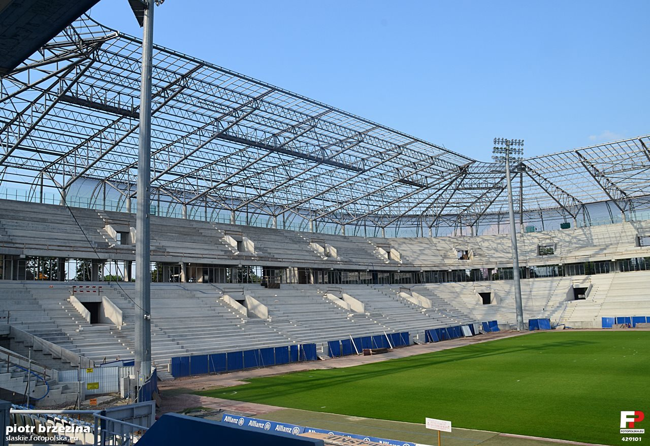 Renovation of Ernest Pohl Stadium. Interior view.